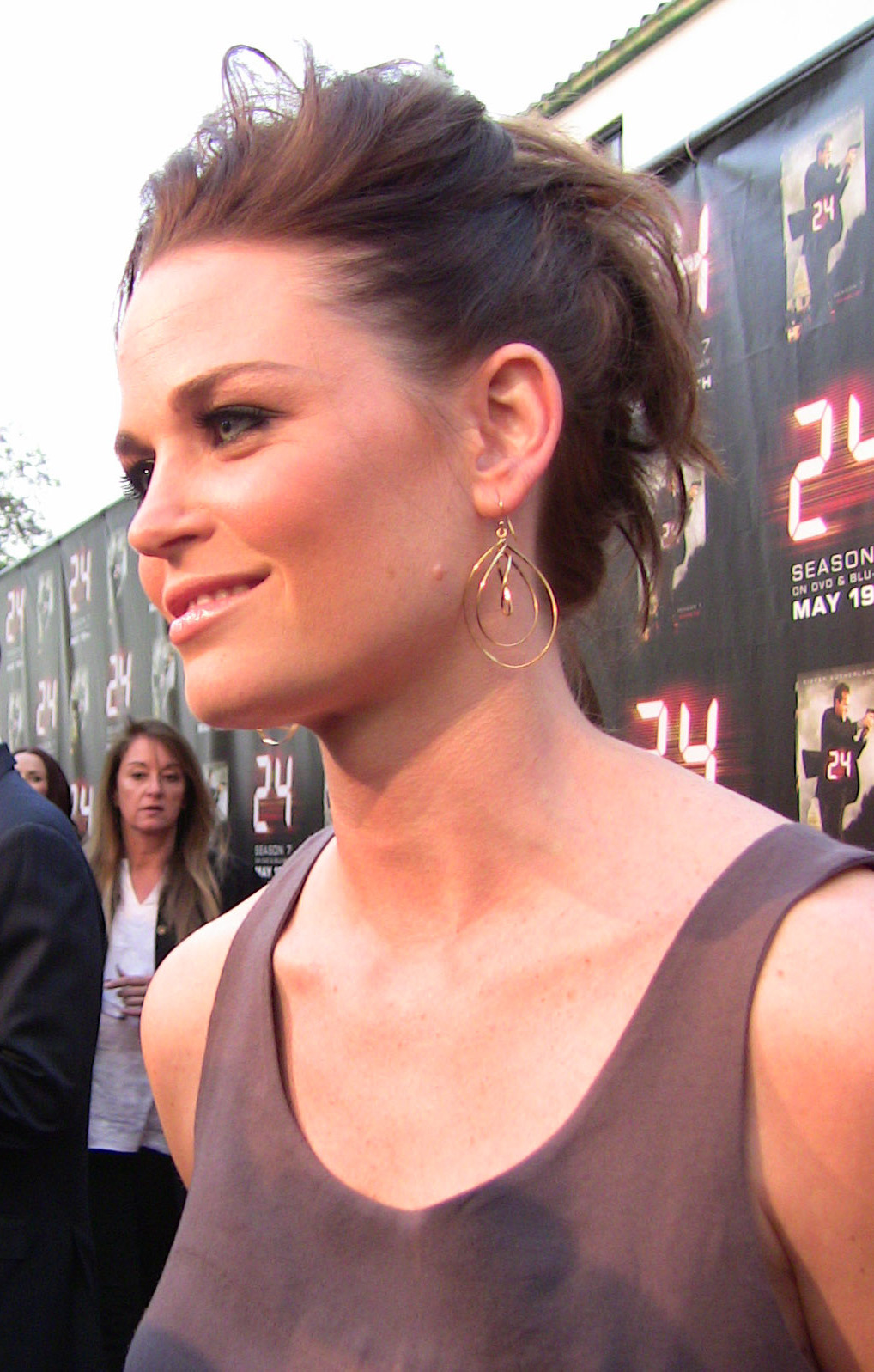 Actress Sprague Grayden at TV series 24's season 7 finale screening at Wadsworth Theatre, Los Angeles, California.